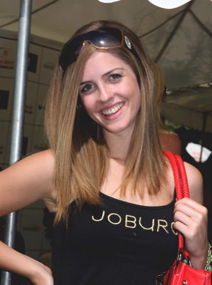 Miss Albania Egla Harxhi during Miss World 08 in Johannesburg